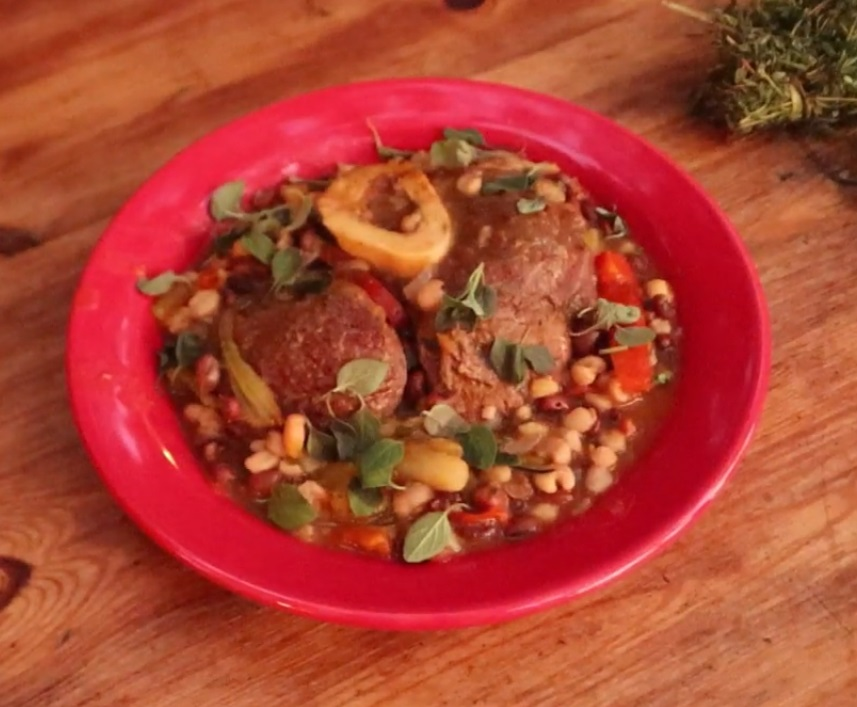 Yopará is locro soup with beans